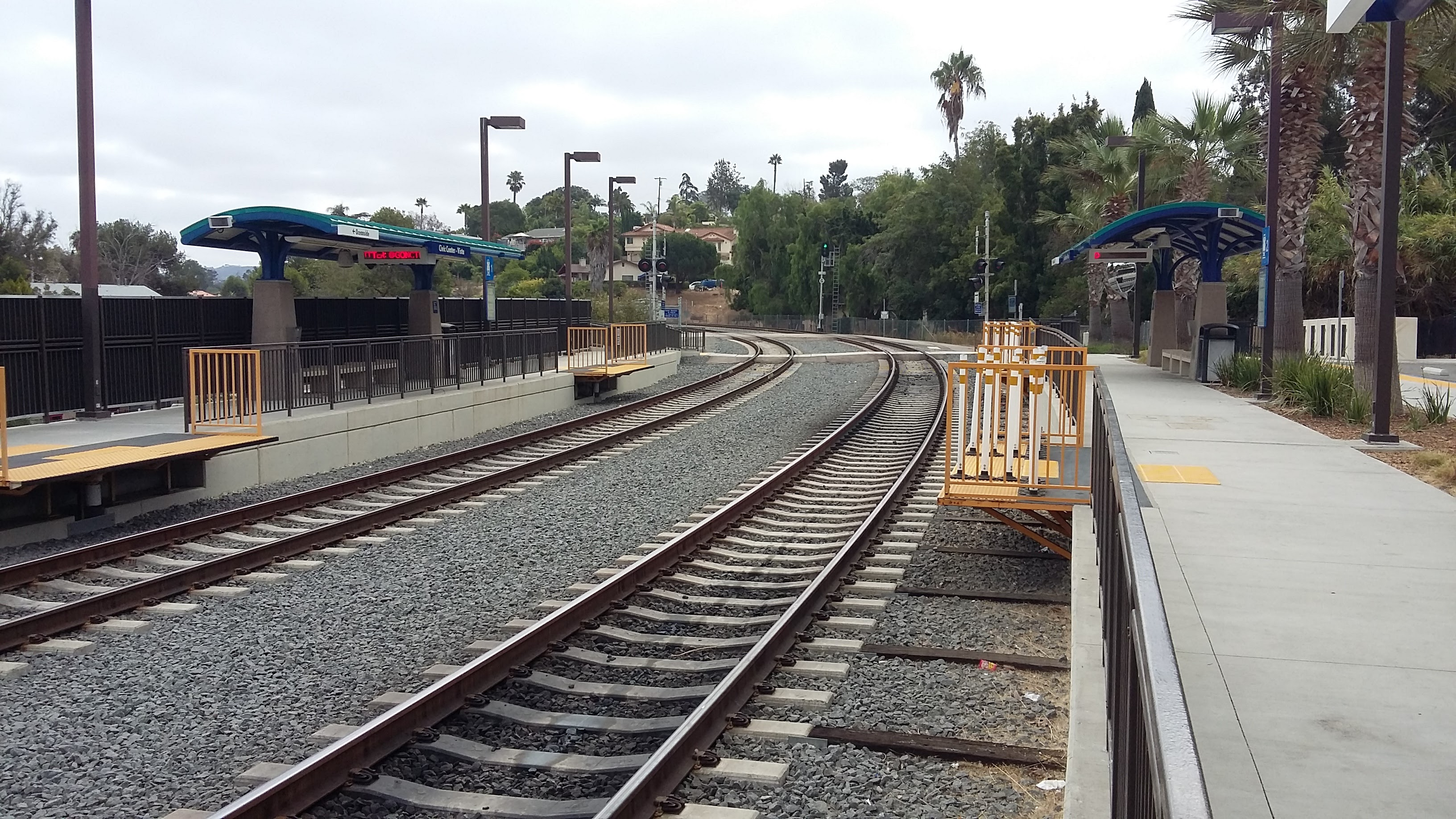 SPRINTER tracks looking east, Civic Center-Vista station